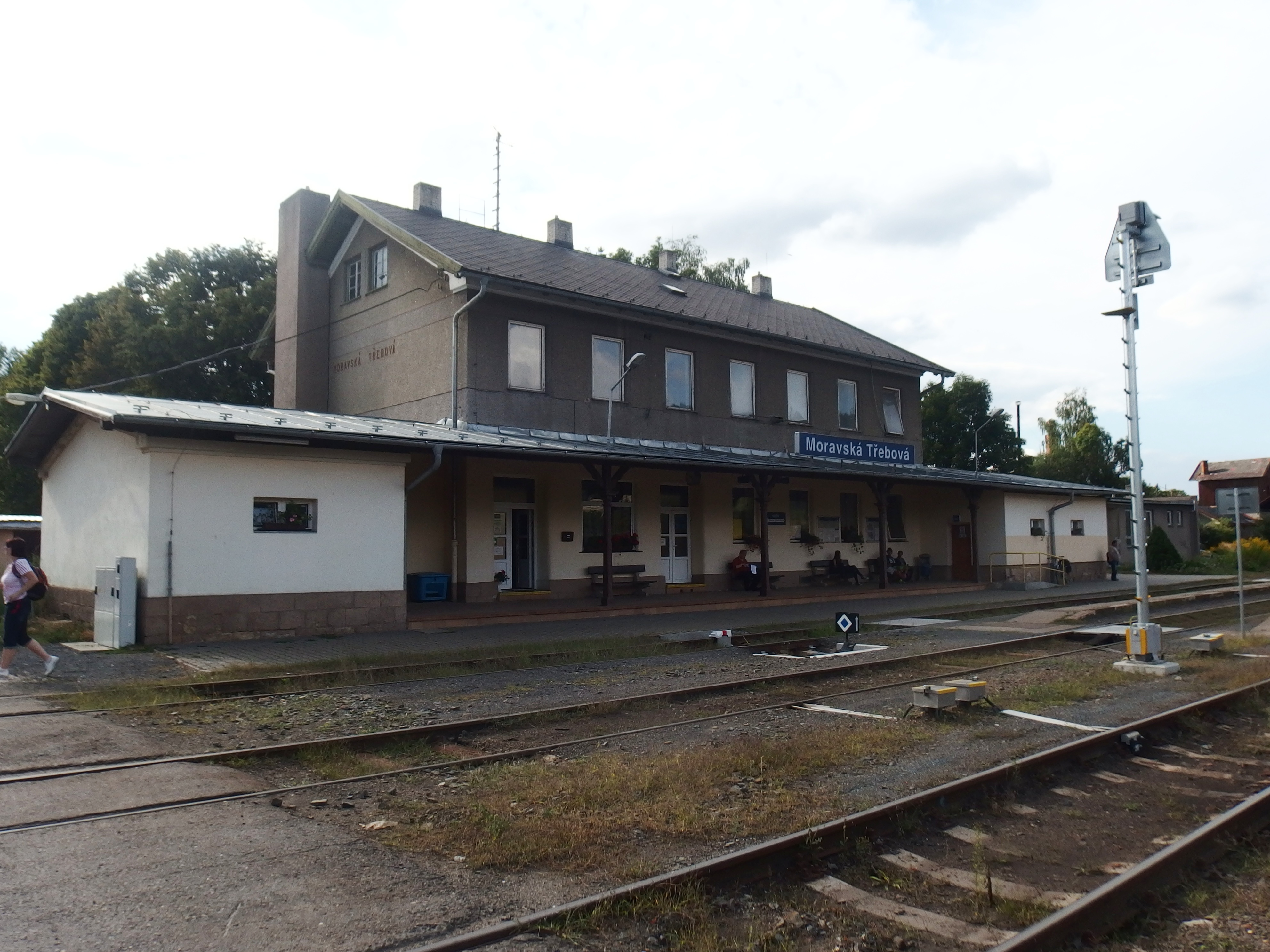 Moravská Třebová, Svitavy District, Czech Republic. Train station.